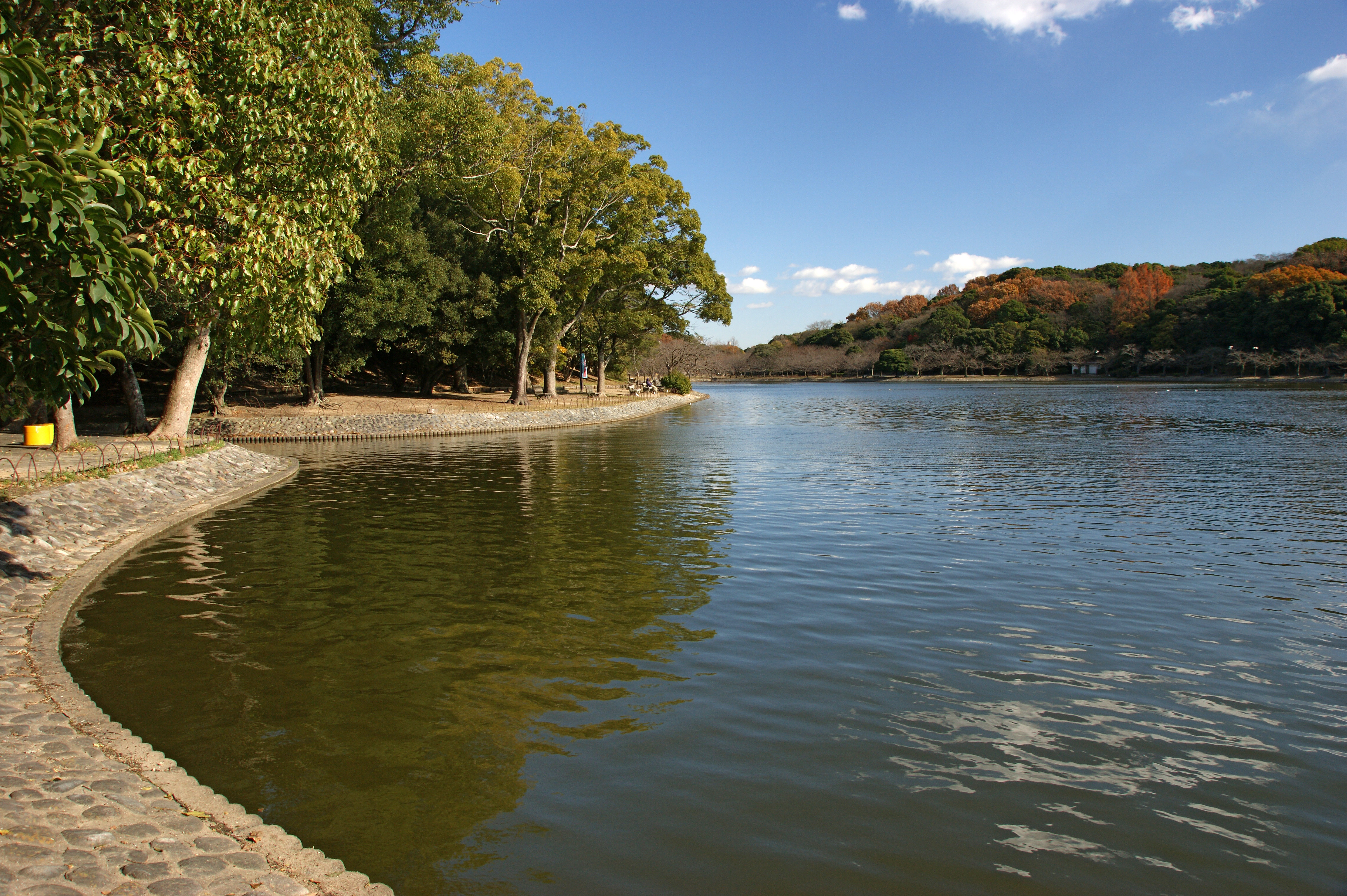 Akashi Castle (Akashi Park), Akashi, Hyogo prefecture, Japan